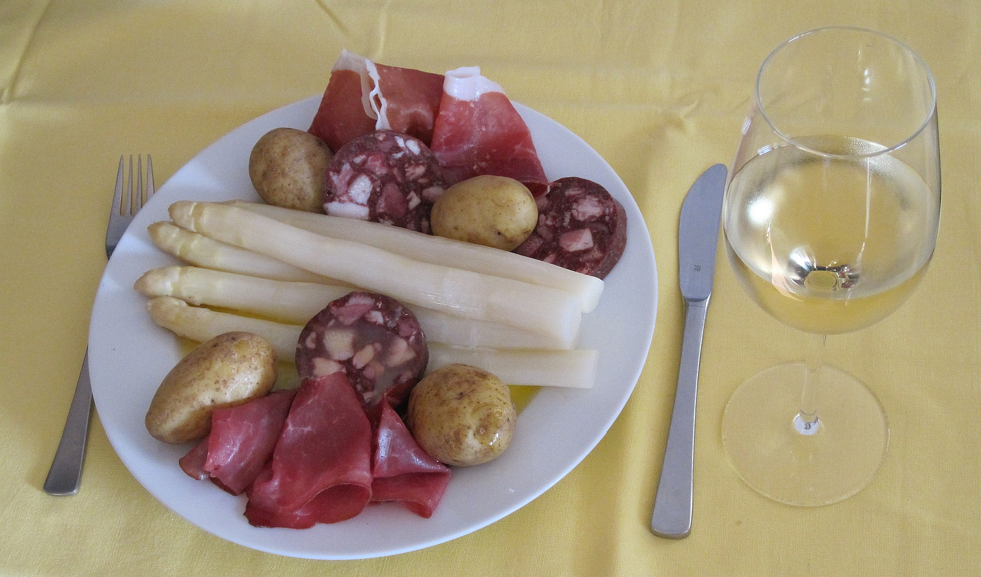 White Asparagus franconian style, served with potatoes, melted butter, smoked ham, red brawn and a glass of Silvaner